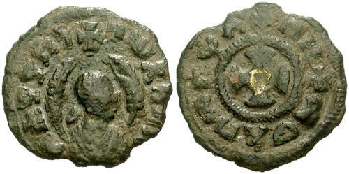 Coin of the Axumite king Mhdys